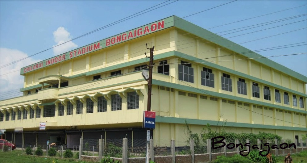 stadium